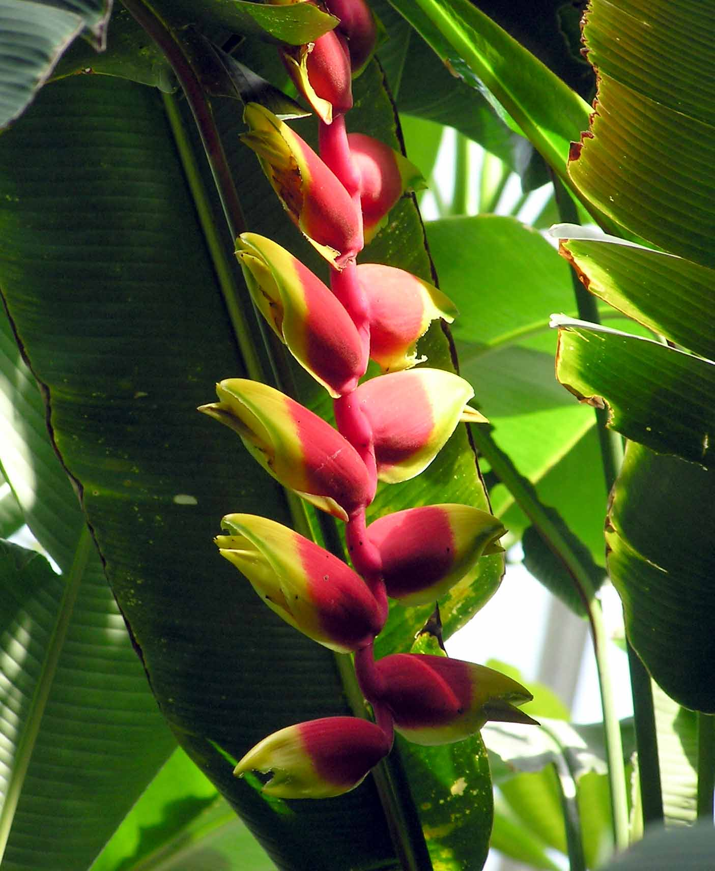 Heliconia rostrata at Kew Gardens, London, England. Taken by Adrian Pingstone in June 2005 and released to the public domain.